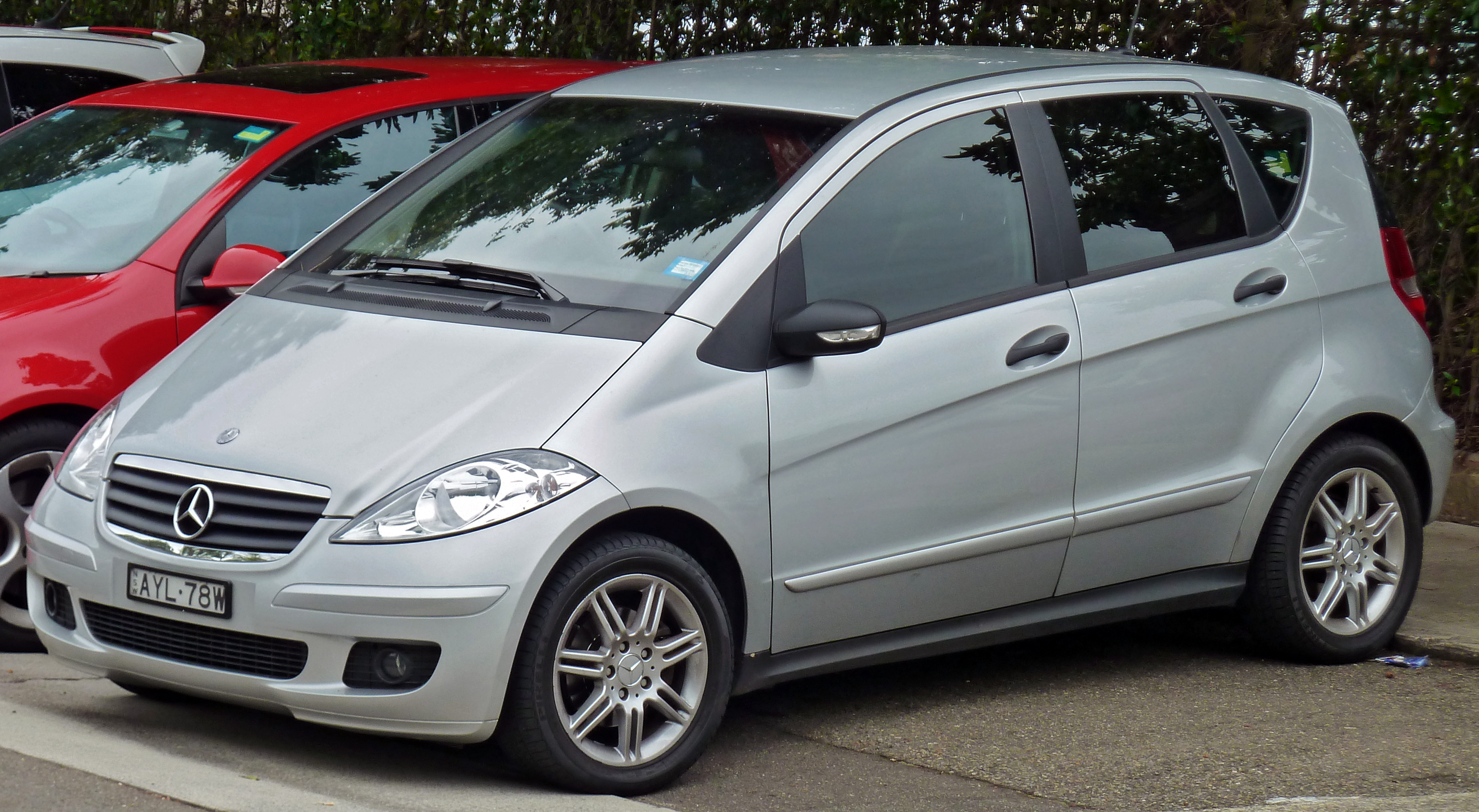 2006 Mercedes-Benz A 170 (W 169) Classic 5-door hatchback. Photographed in Rose Bay, New South Wales, Australia.